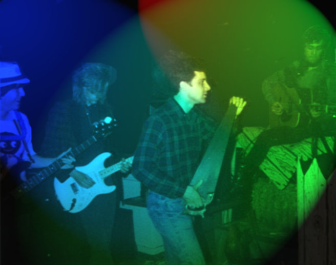 CDC Boys Live